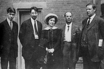 Strike leaders at the Paterson silk strike of 1913. From left, Patrick Quinlan, Carlo Tresca, Elizabeth Gurley Flynn, Adolph Lessig, and Bill Haywood